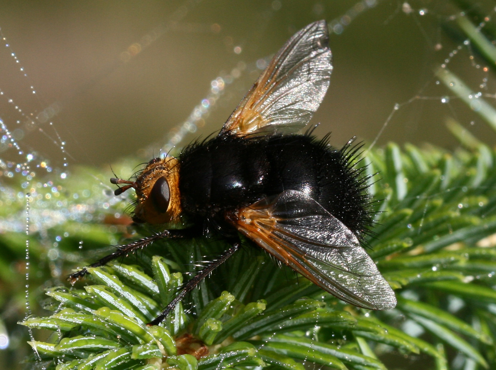 Armet Forest, Gilston, Scottish Borders.